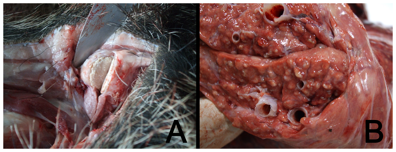 Wild boar showing localized (bTB like lesion in submandibular lymph node) (a) or generalized bTB lesion patterns (bTB like lesions in lungs) (b)